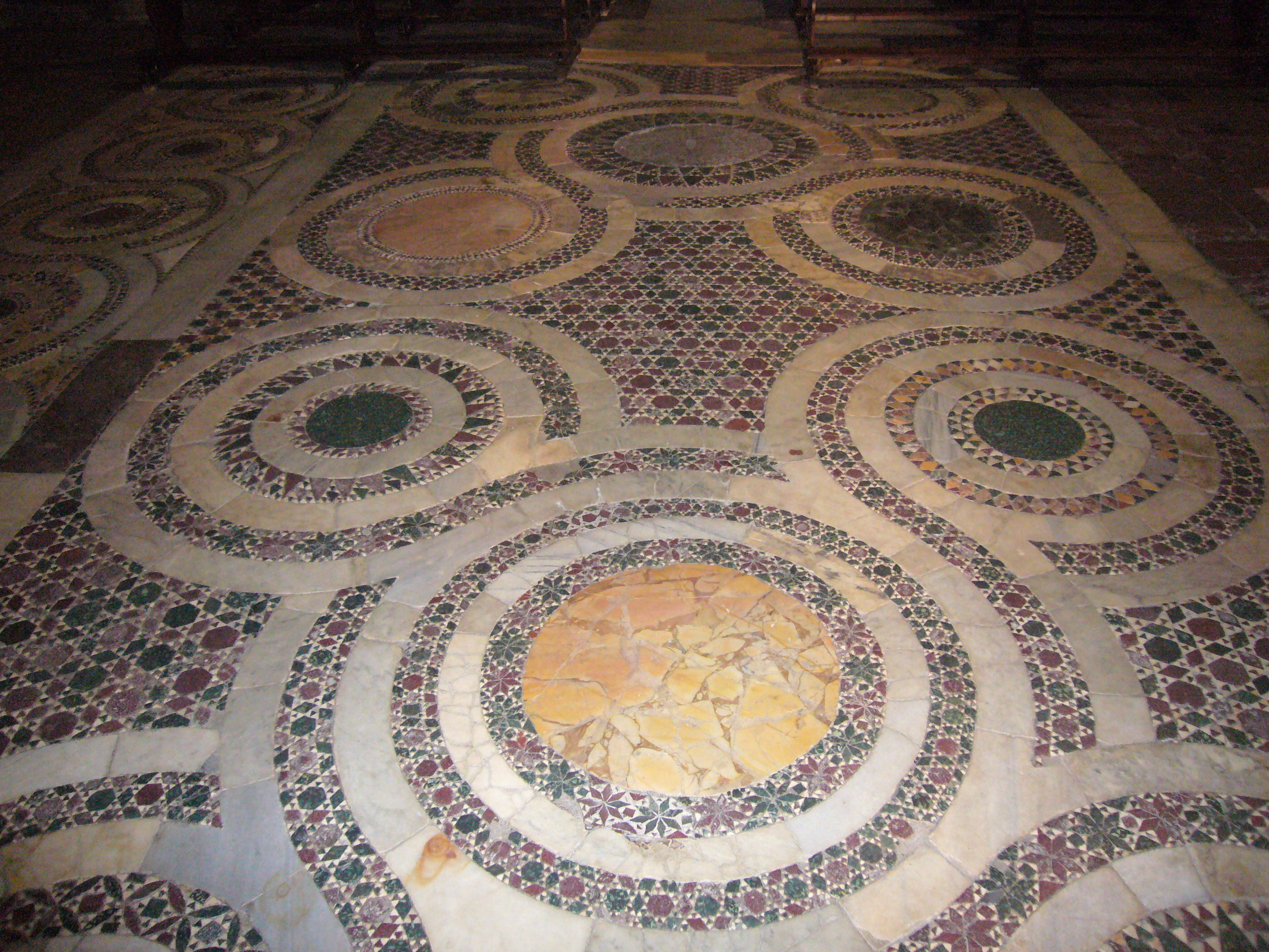 San Benedetto in Piscinula, Rome: Cosmatesque pavement inside the church showing one of the quintessential cosmatesque designs, the Qincunx.